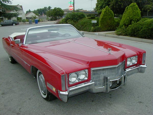 1971 Eldorado owned by Bill Mitchell